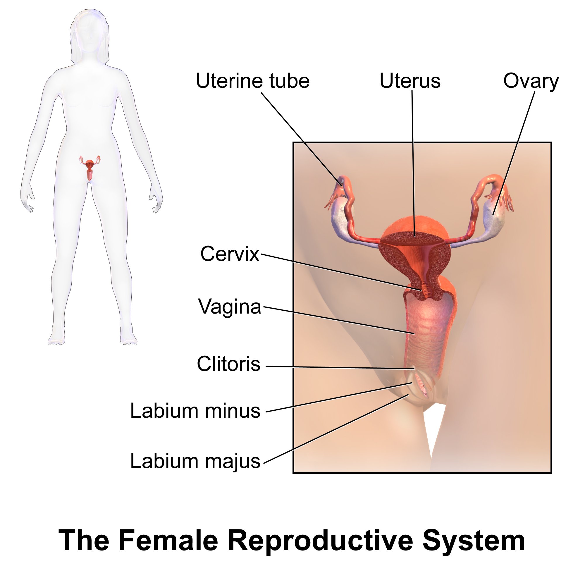 Female Reproductive System. See a full animation of this medical topic.